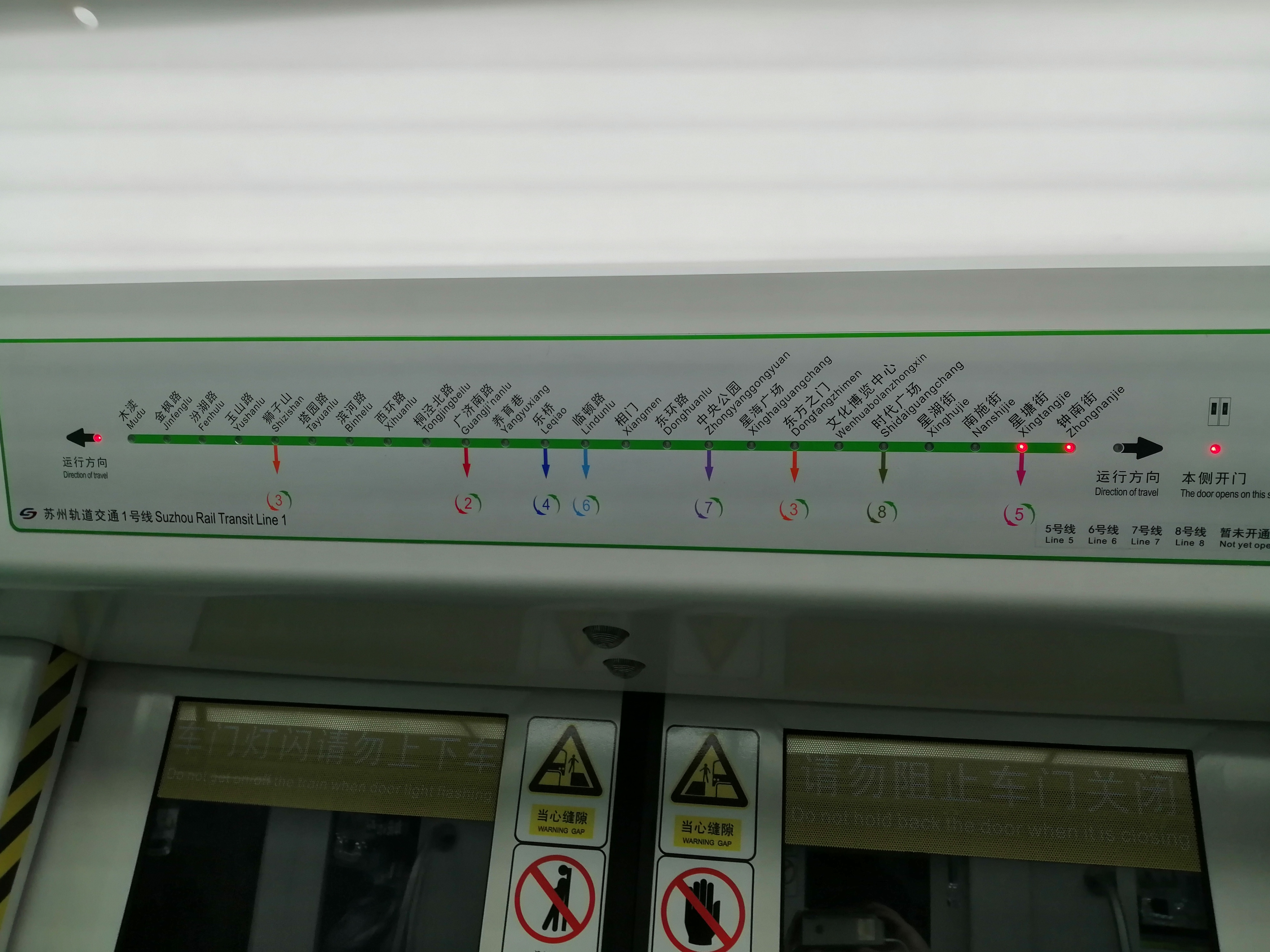 The route map inside the train of Line 1, Suzhou Rail Transit. The map is updated in December 2019, which some stations' English translation (ex. Times Square) are changed (the current name is Shidaiguangchang). 中文（中国大陆）: 苏州轨道交通1号线列车内的运行路线图。该图已于2019年更新，其中部分车站的英文名称由英文意译改为汉语拼音，如时代广场站，英文原名Times Square，更新后改为Shidaiguangchang。